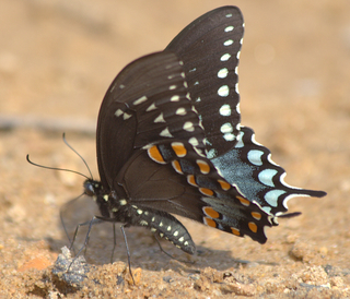 Spicebush Swallowtail Papilio troilus, Photo taken in Chilton County, AL.